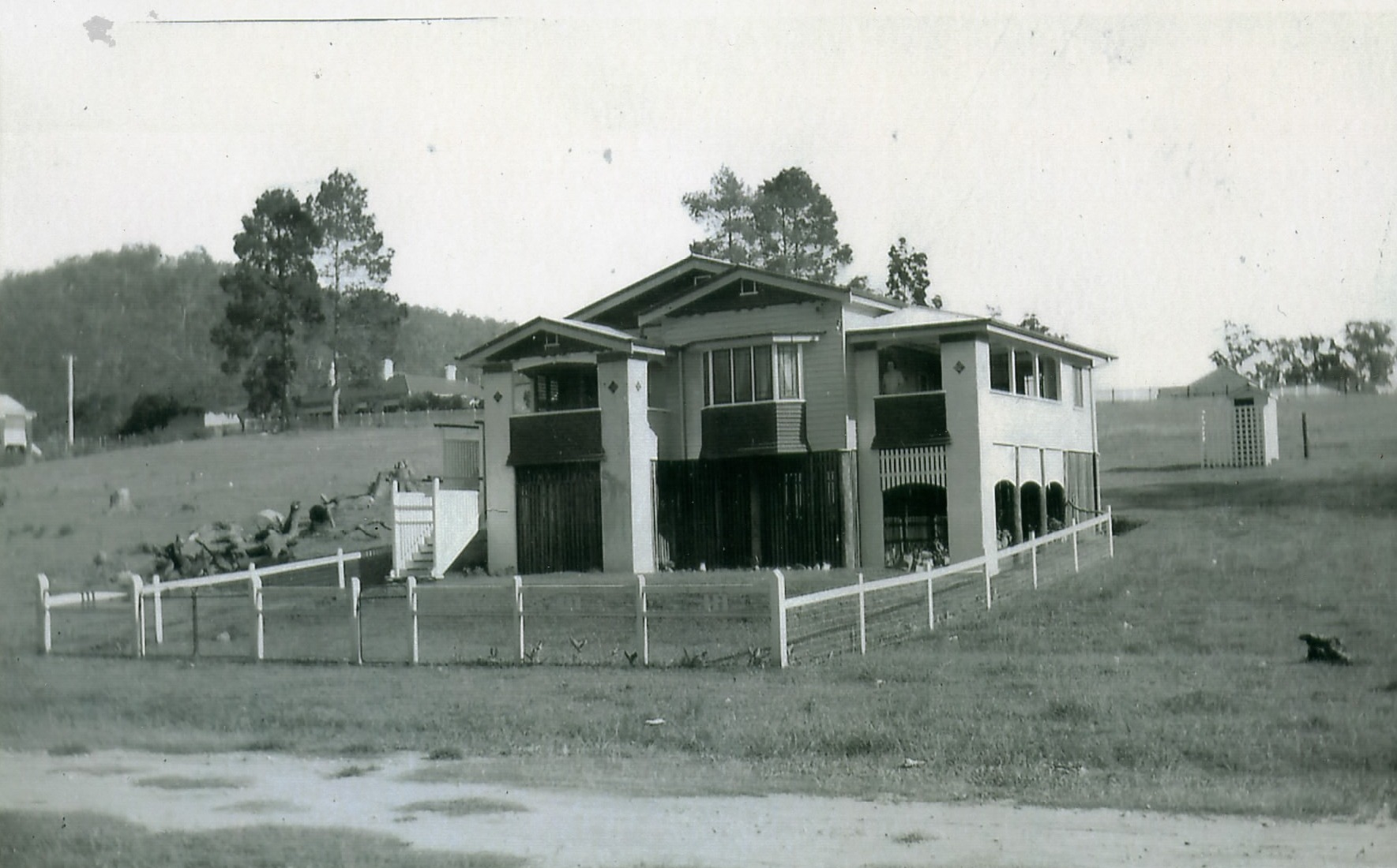 Original Ashgrovian house built in St Johns Wood, Ashgrove. Granite house can be seen behind.